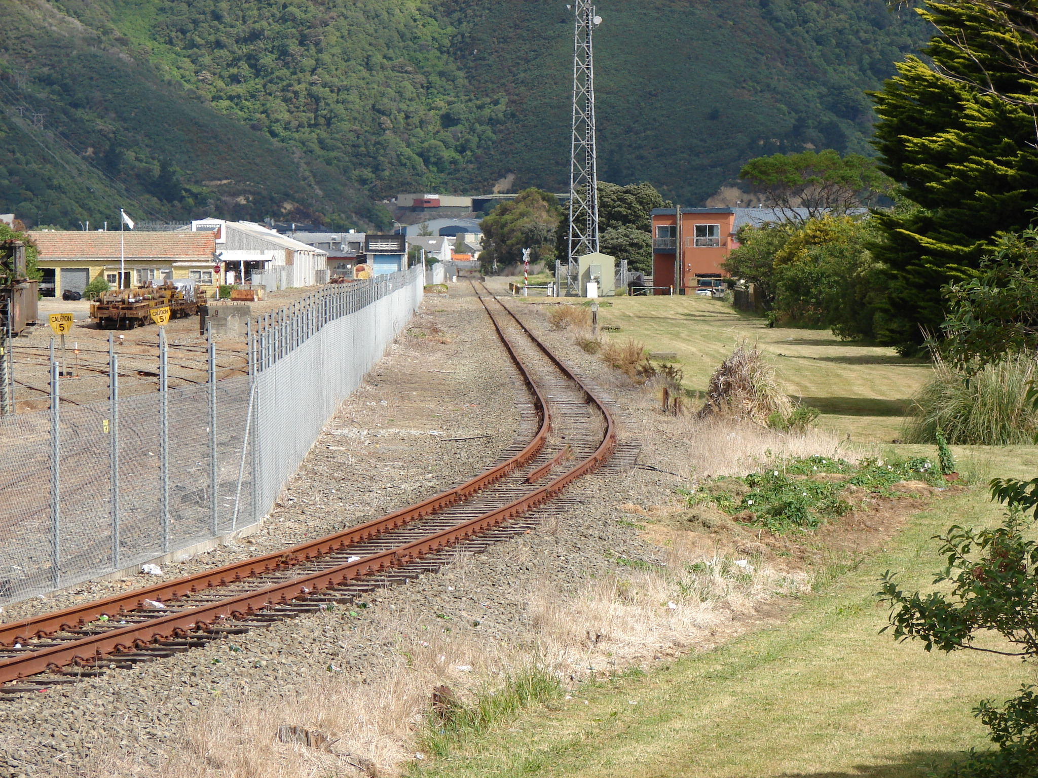 Gracefield Branch, also showing Elizabeth Street entrance to Hutt Workshops. Wellington, New Zealand